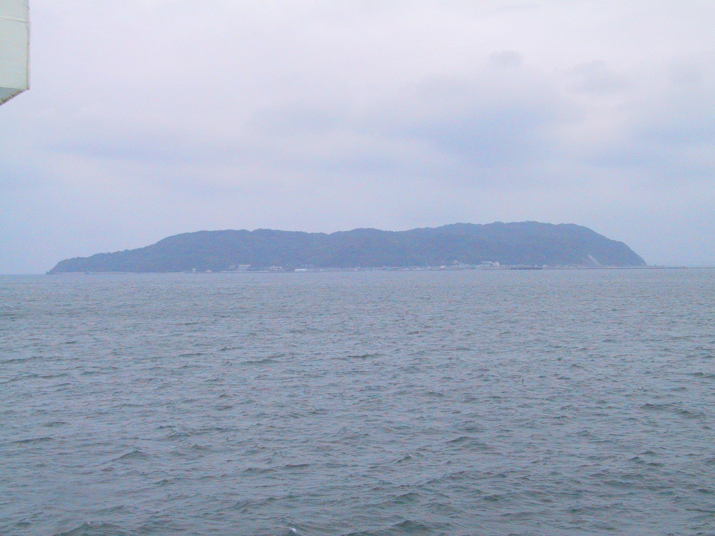 Shikano-shima island. Taked in Hakata bay, Fukuoka, Fukuoka, Japan.